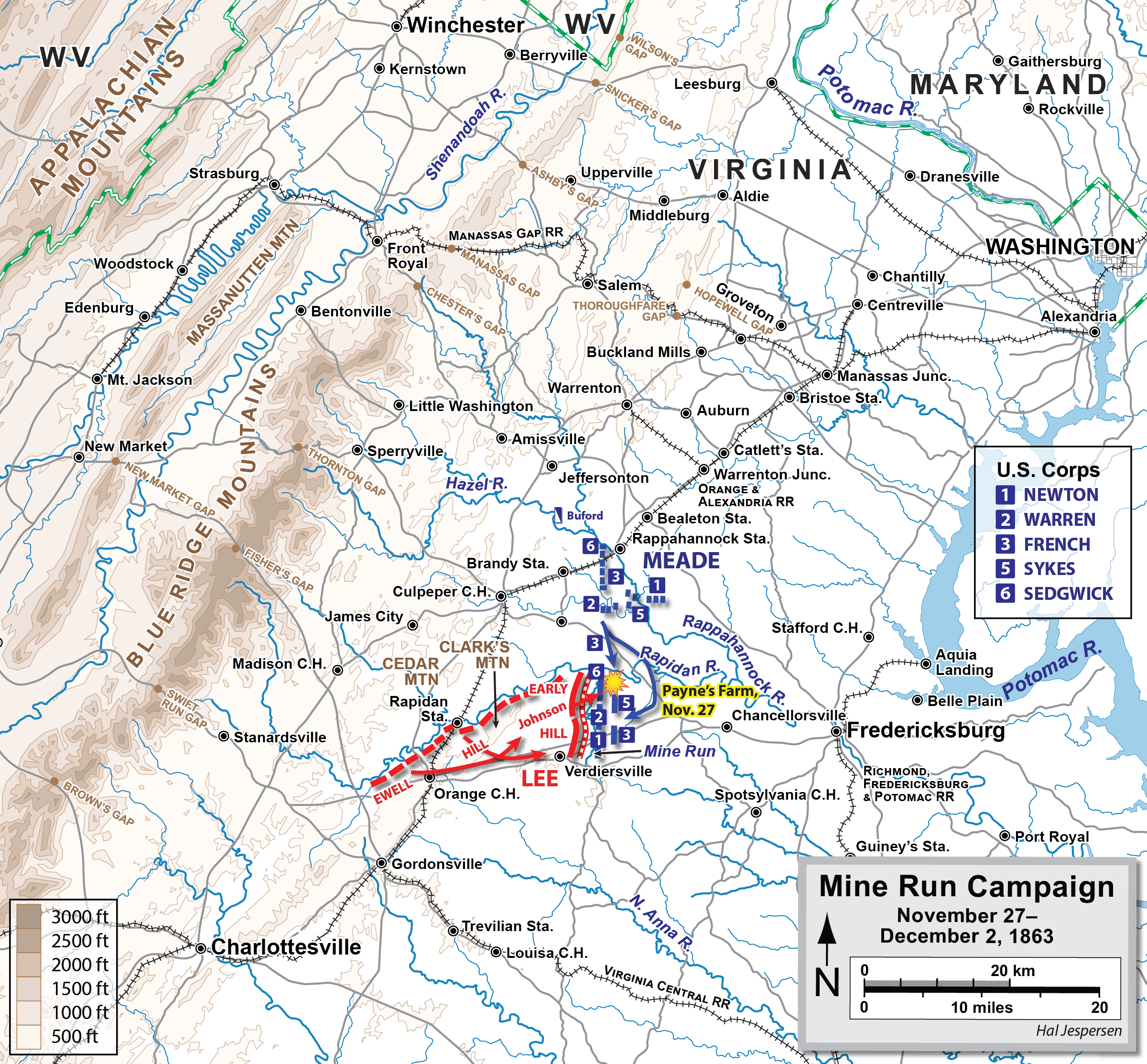 Map of the Mine Run Campaign of the American Civil War. Drawn in Adobe Illustrator CC by Hal Jespersen. Graphic source file is available at